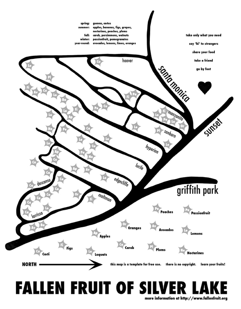 Public Fruit Map, Silver Lake, California, PDF, dimensions variable, 2004